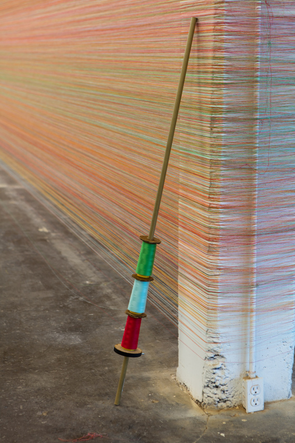 Walk the Line (2015) Performance with colored yarn 2,019km Dallas Contemporary (One of four photos)